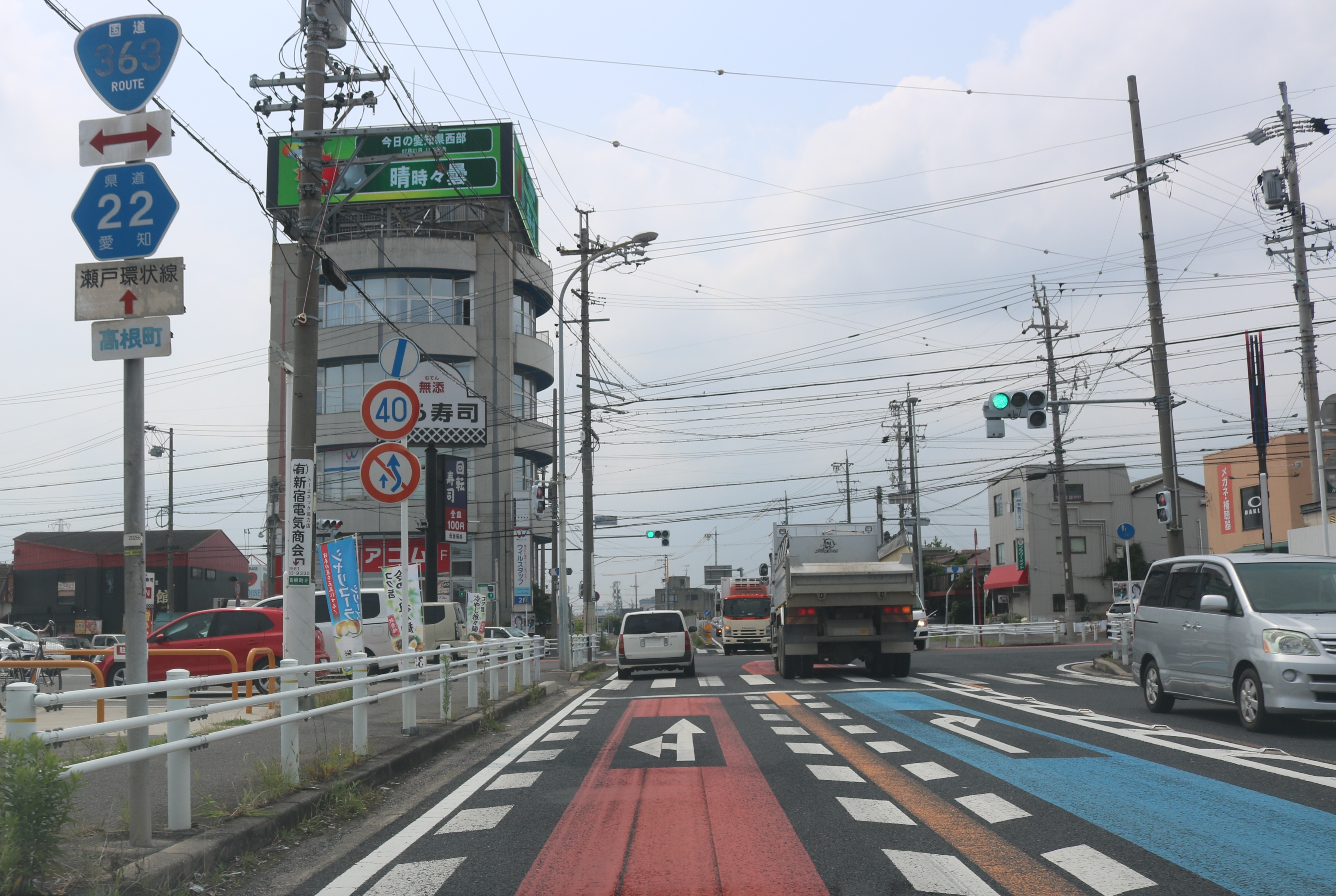 Aichi Prefectural Road Route 22 in Takane-cho, Seto, Aichi prefecture, Japan.